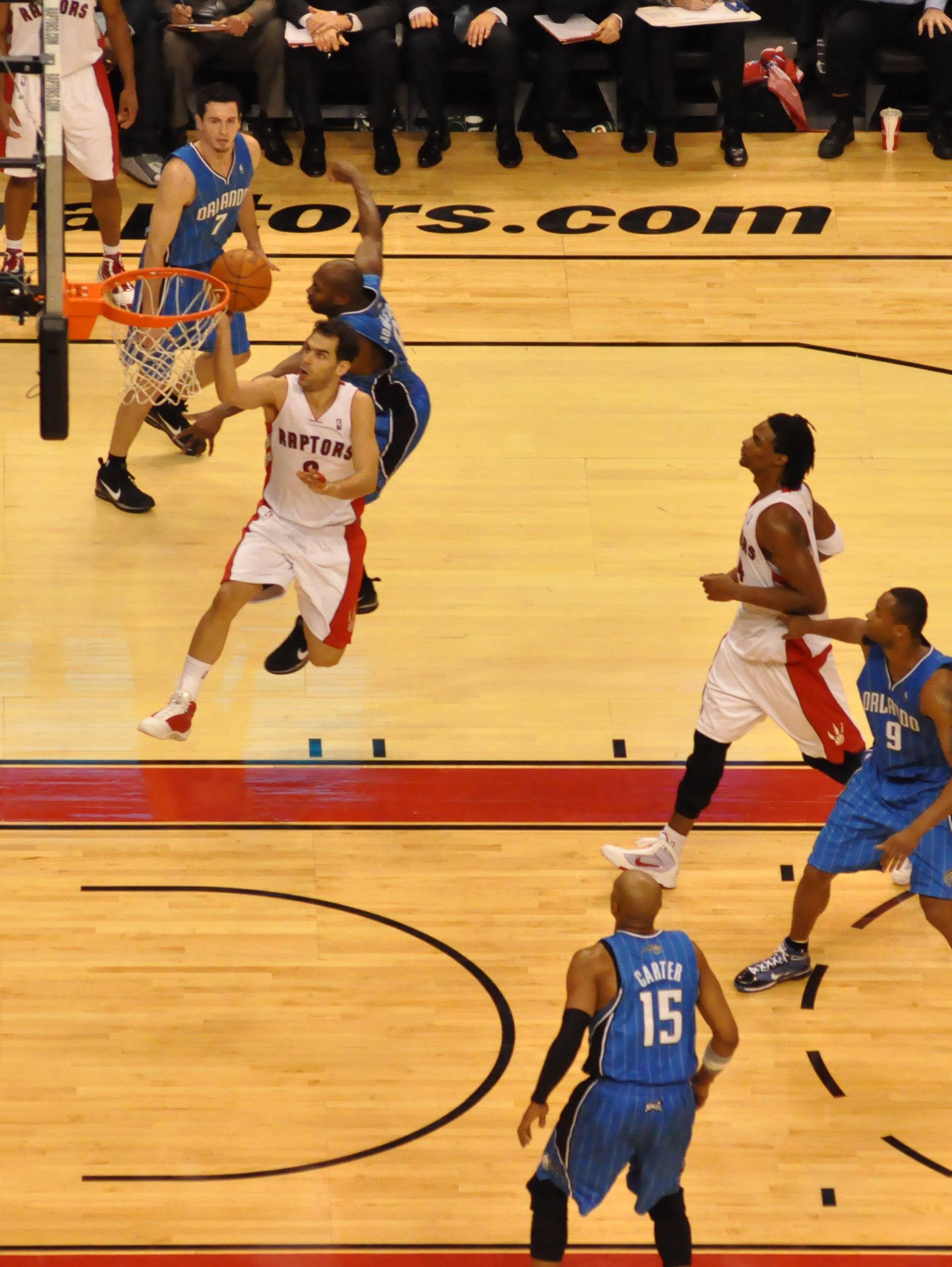 Jose Calderon of Toronto Raptors going for a layup against Orlando Magic